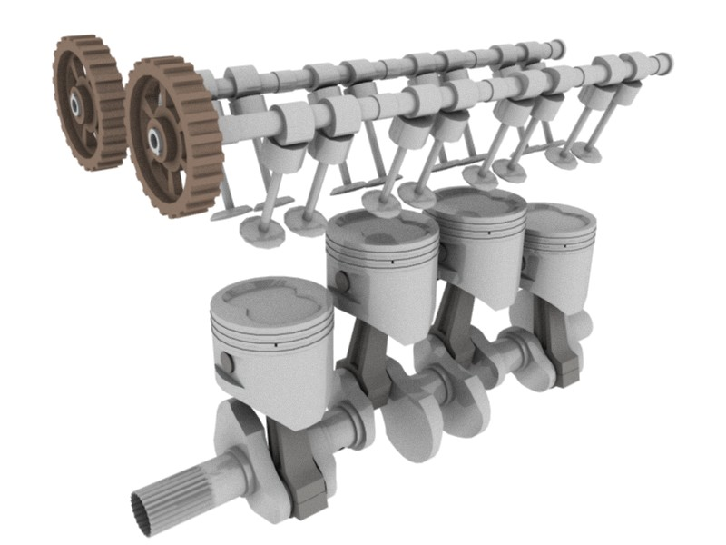 Diagram of an engine created by Wapcaplet in Blender. This image was created as a test rendering; it is "unfinished" in many ways, but you are of course free to modify or adapt it for more public use. If you do want to create a derivative, please contact Wapcaplet, who will be happy to send you the original Blender scene file!